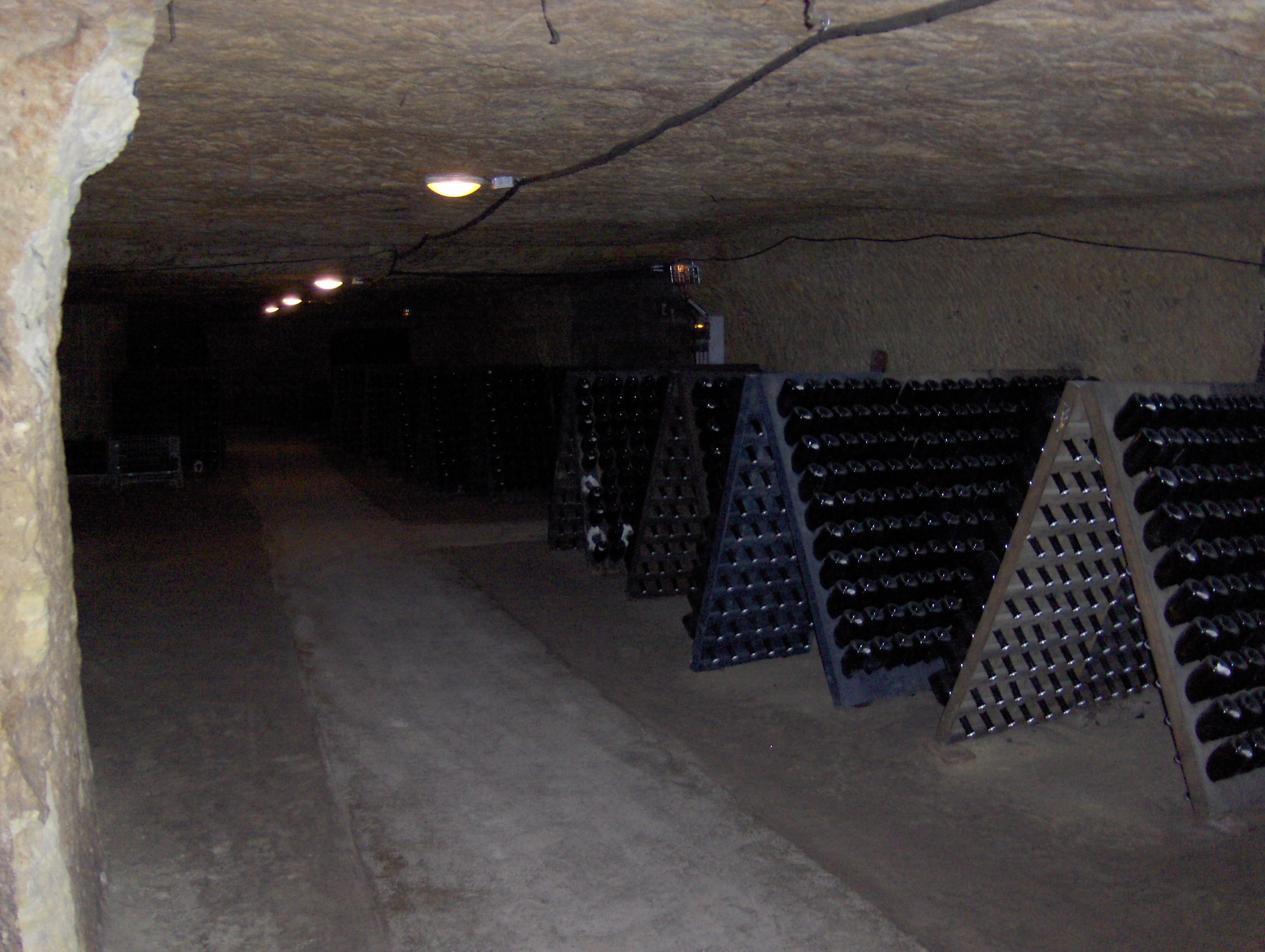 Image of wine cave carved into the limestone in the Vouvray region.